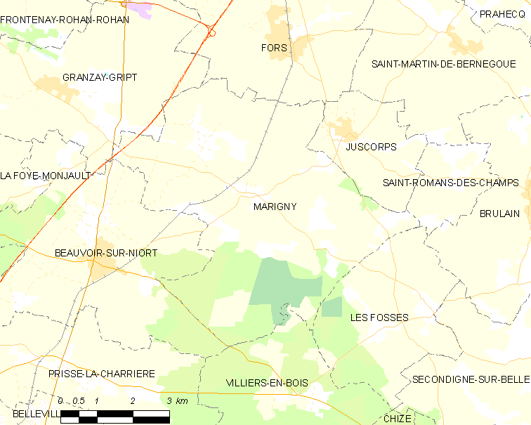 Map of French municipality Marigny